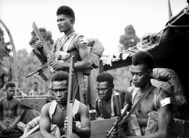 Soldiers from 'B' Company of the 1st New Guinea Infantry Battalion on board the transport Frances Peat in November 1944 while being transported to the location in Jacquinot Bay area of New Britain where the company established its headquarters.